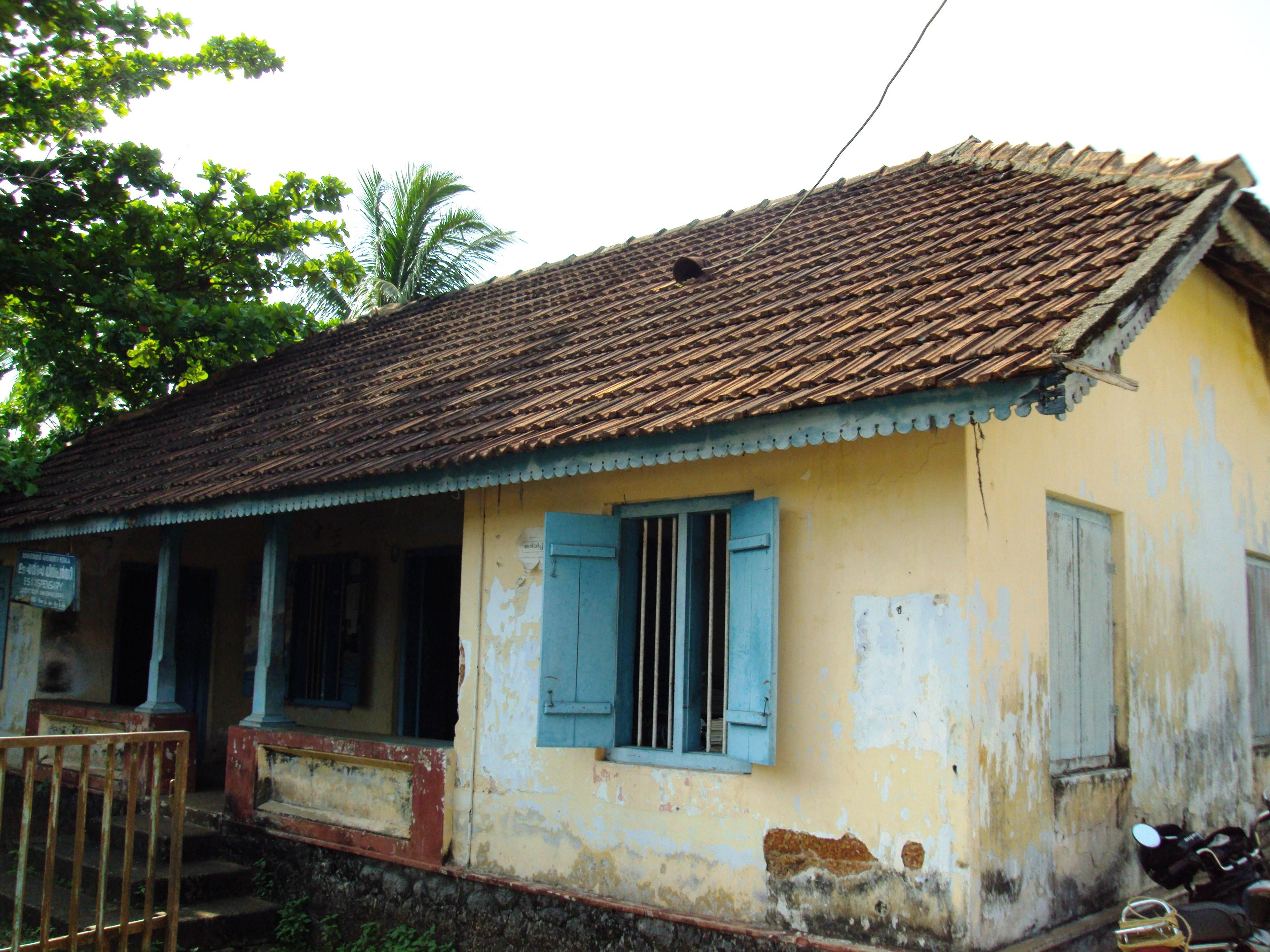 vaazhappally temple; kudasanthi madom